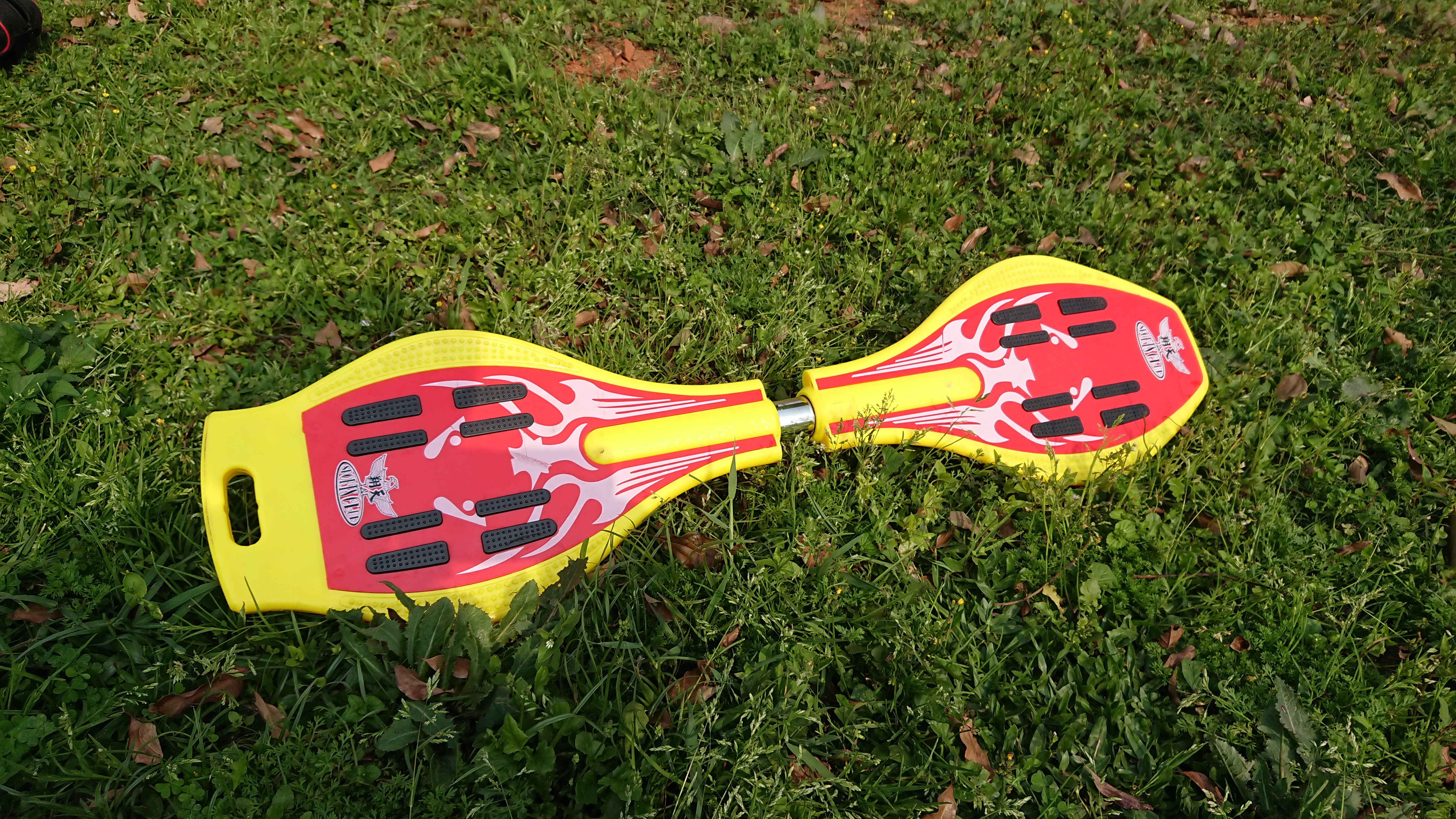 Snake Board